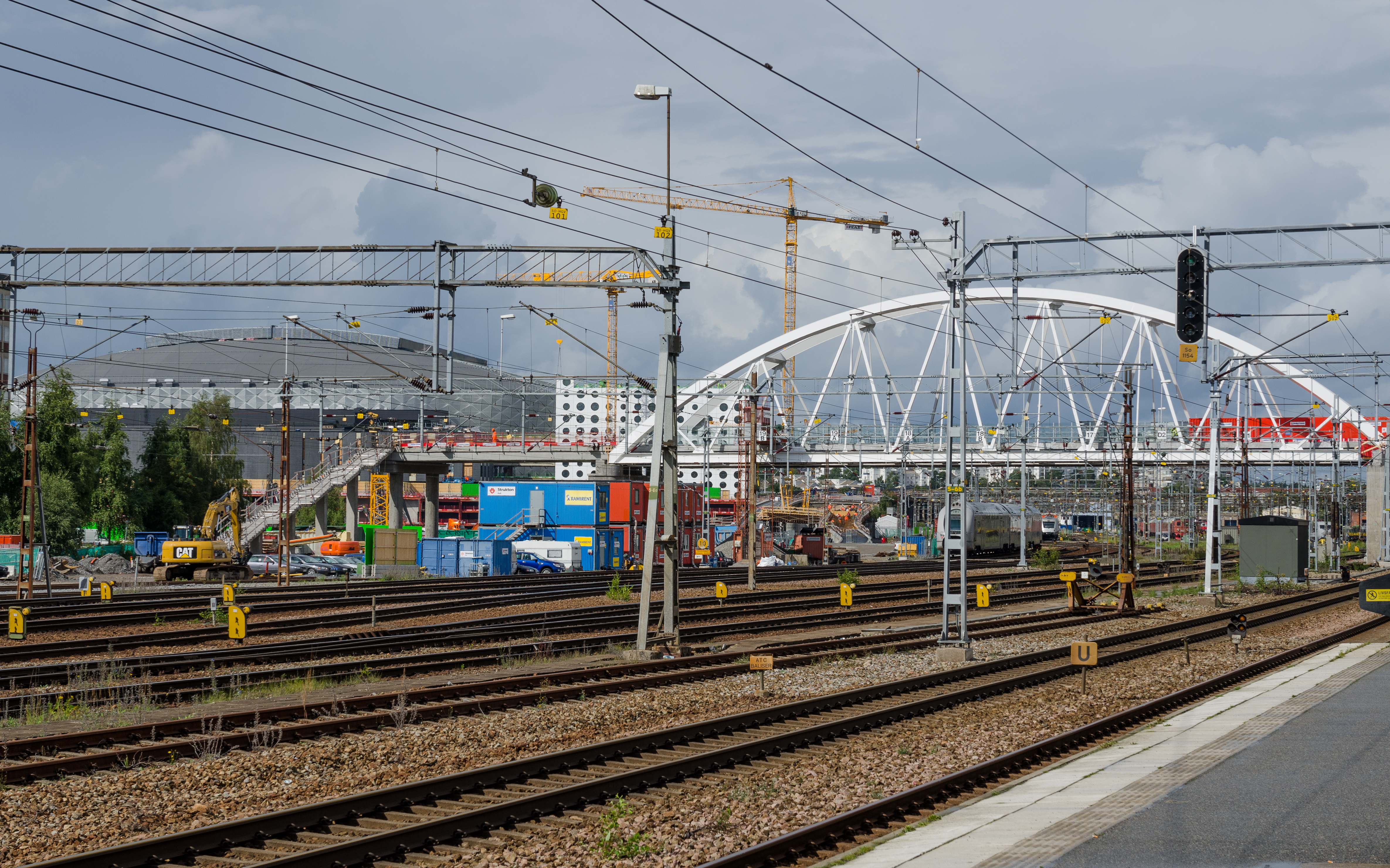 Solna station. View towards the new Friends Arena